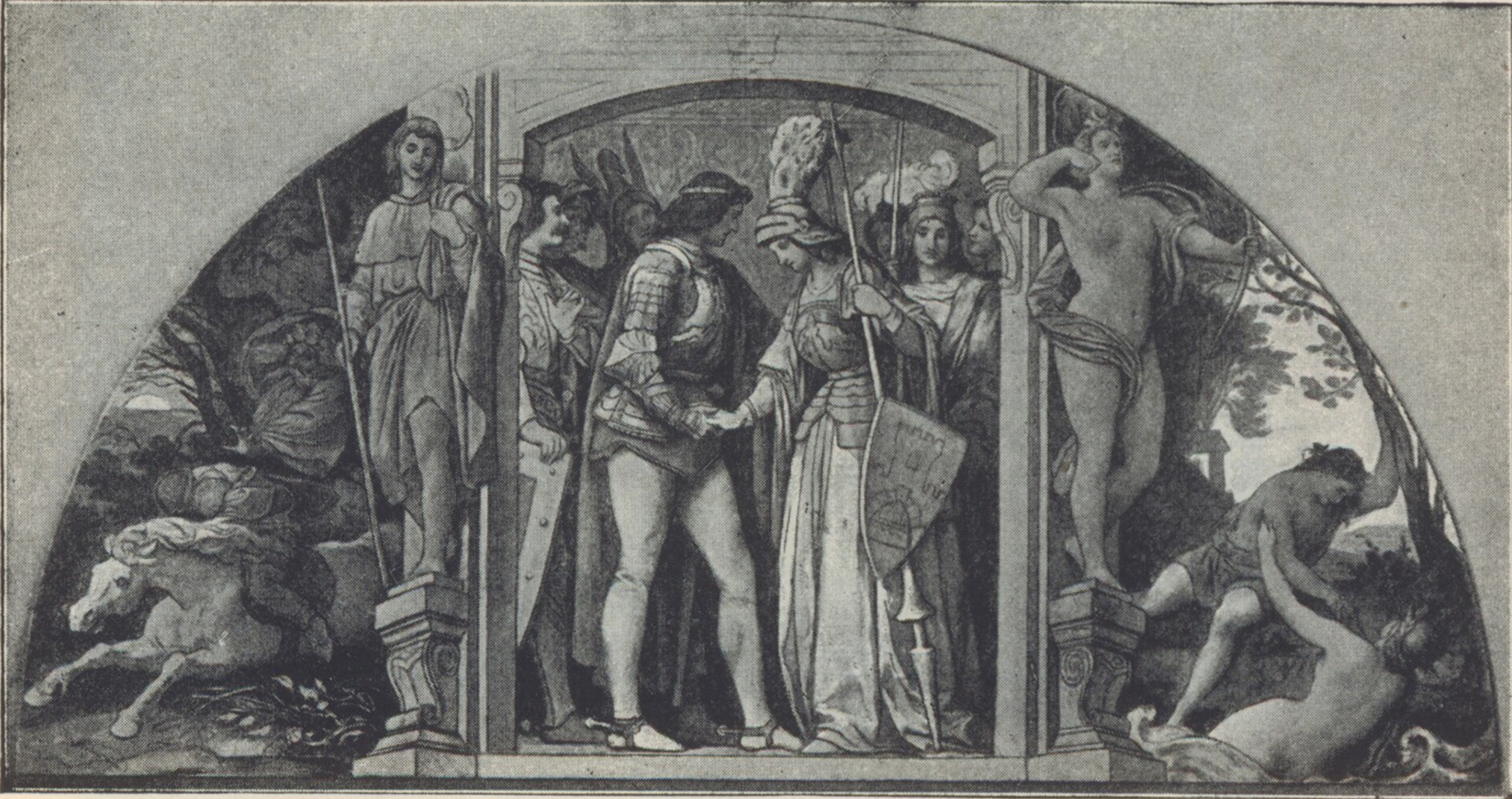 Schwind's Lunette on Schubert Opera Vienna (1869)